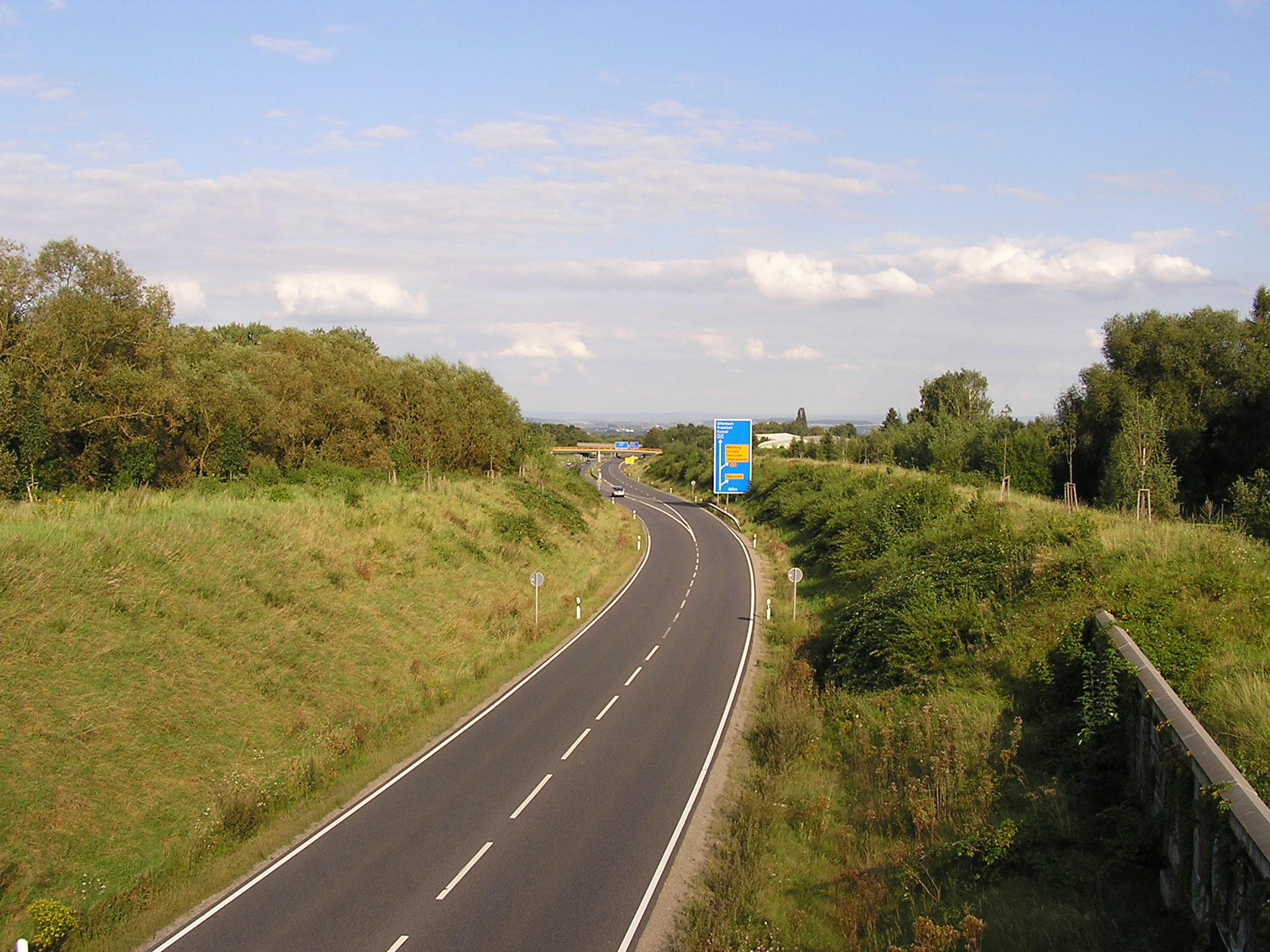 Beginning of the A 661 at Oberursel